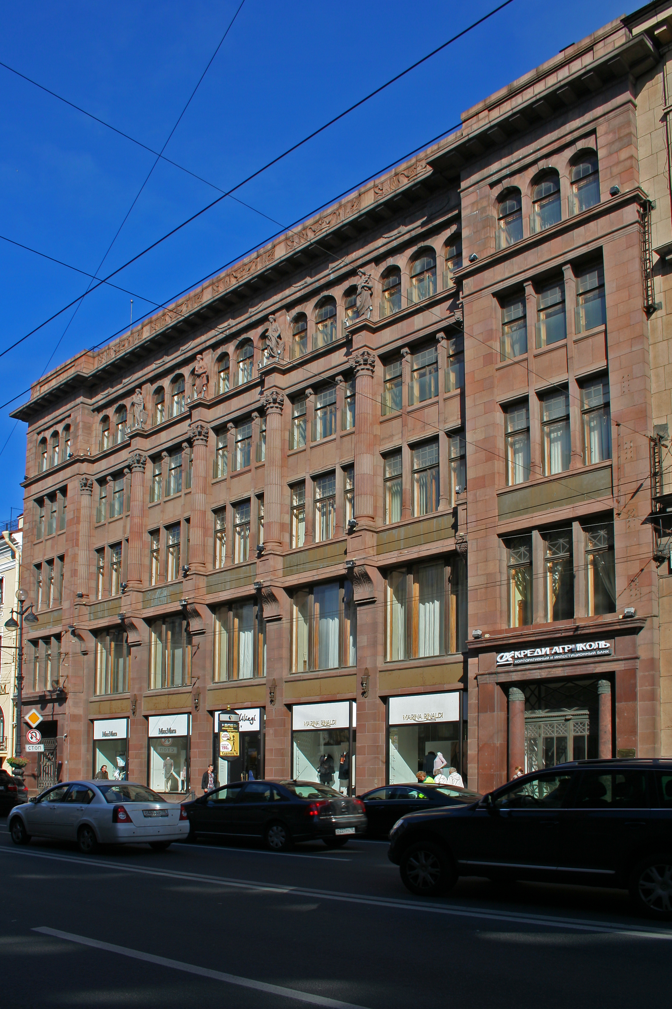 The Nevsky Prospekt in Saint Petersburg. House number 12.